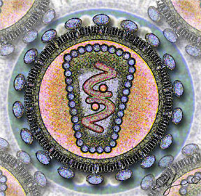 Stylized rendering of a cross-section of the Human Immunodeficiency Virus.